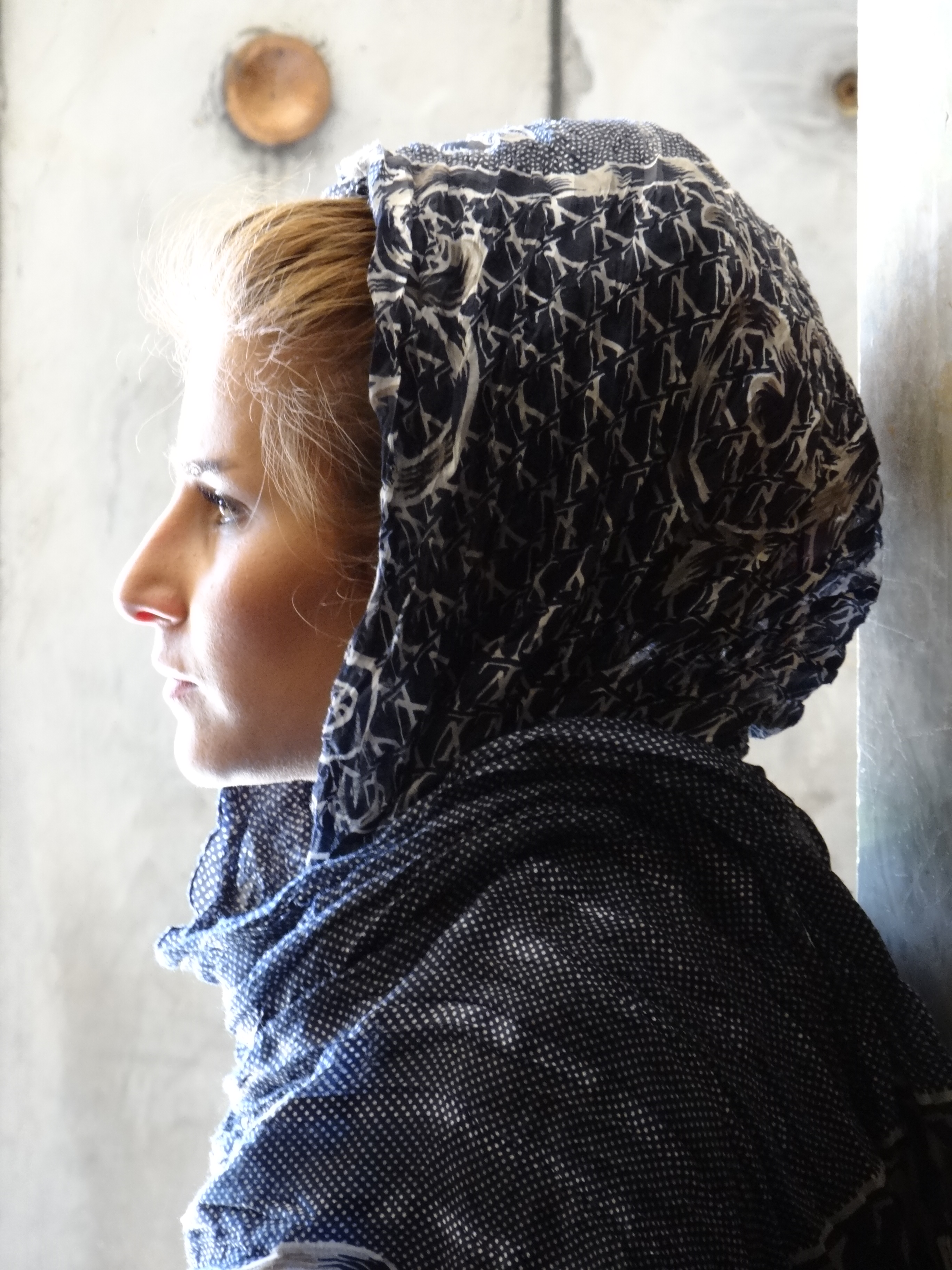 A Persian Beauty - Baba Taher Mausoleum - Hamadan - Western Iran.